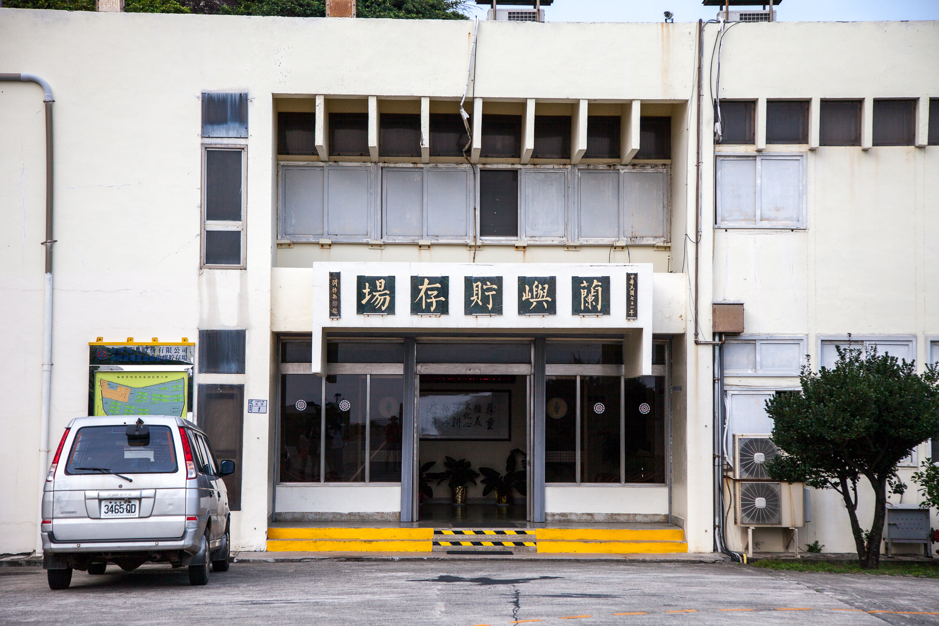 A view of the Lanyu Storage Site at Orchid Island, Taiwan. The photo shows the front entrance of office building. The structure was built by the Ret-Ser Engineering Agency in 1982, and is currently owned by Taipower Company.